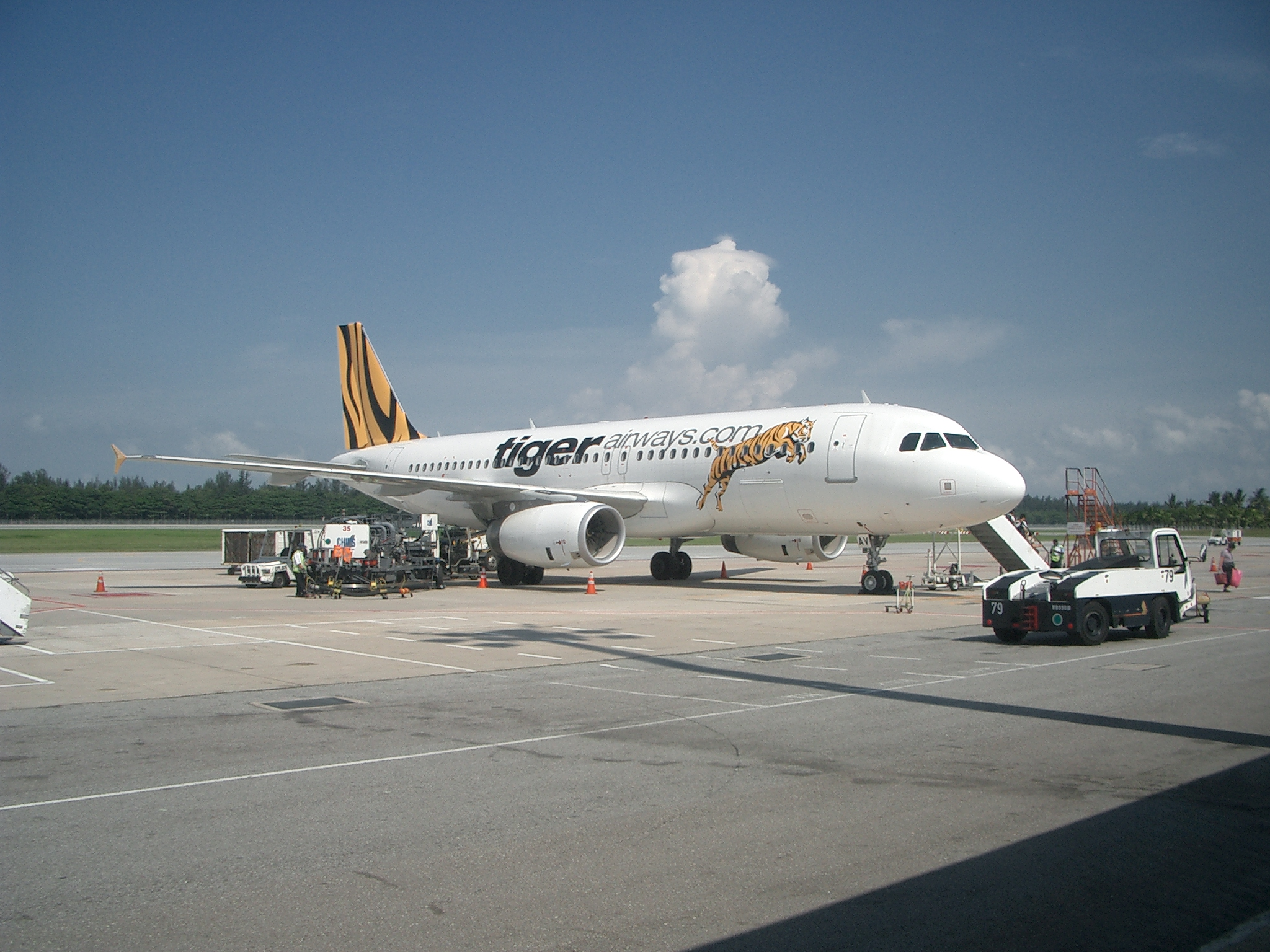 Air Bus A320 of Tiger Airways, Republic of Singapore